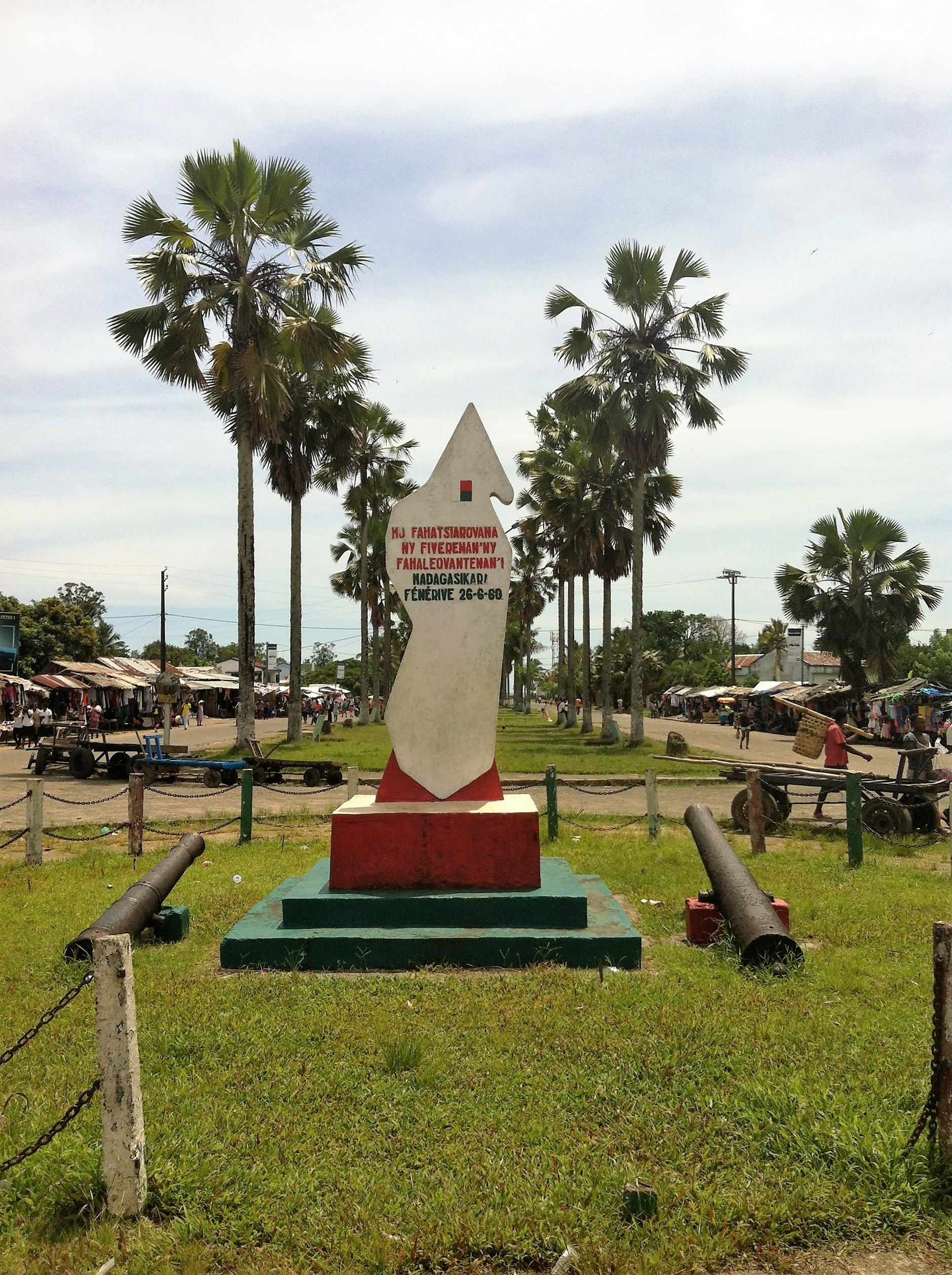 Memorial plaque on Independence avenue in Fenoarivo Atsinanana to celebrate the Independence of Madagascar on France on June 26 1960.